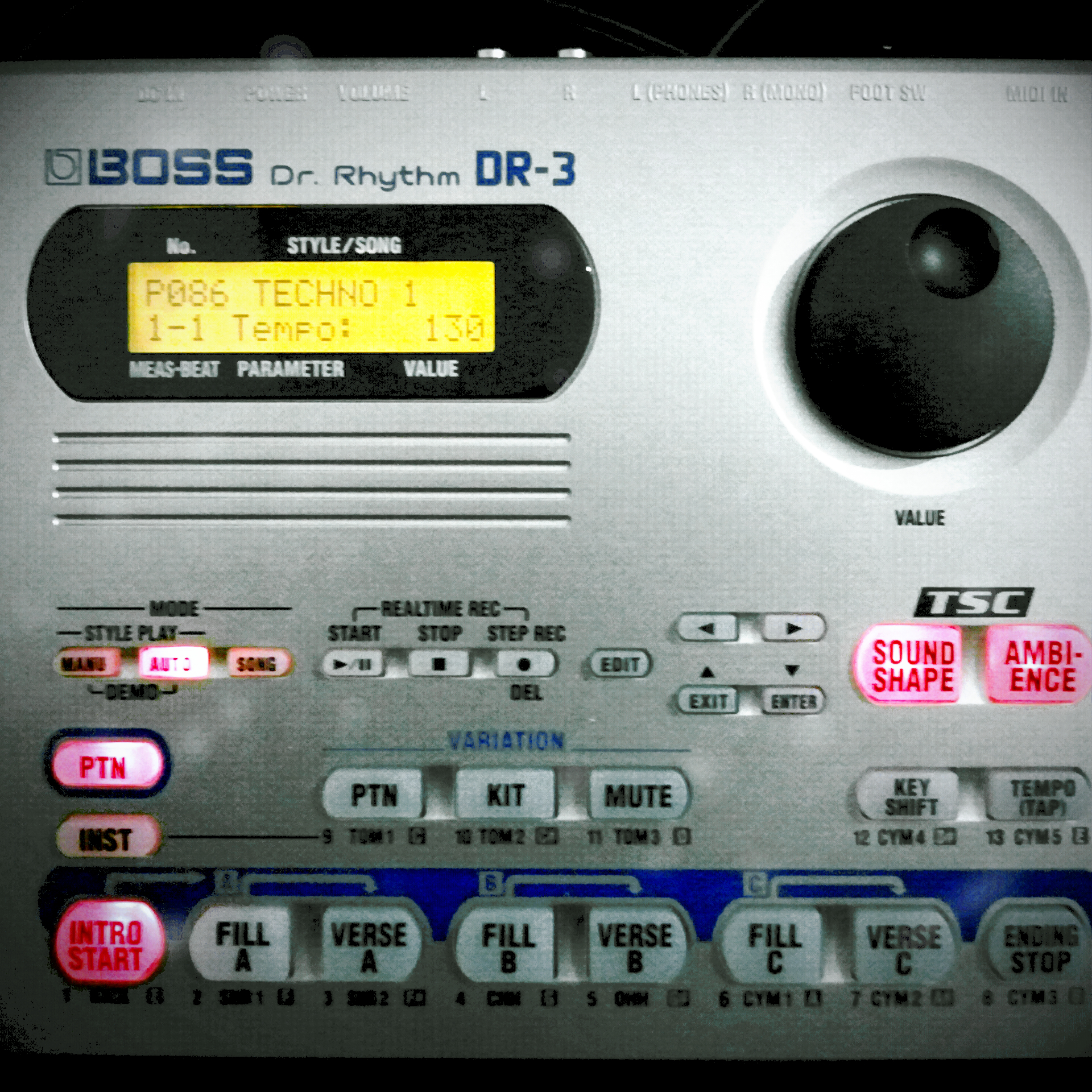 Pretty good drum machine for jamming along.